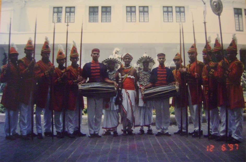 Group photo of the Lascoreen Guard